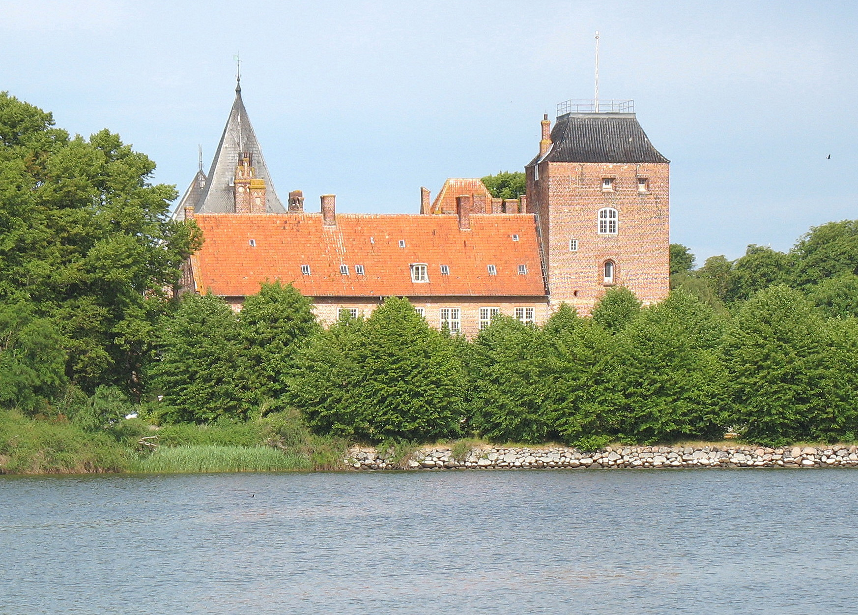 The castle "Aalholm Slot" located near the small town "Nysted" on the island Lolland in east Denmark.